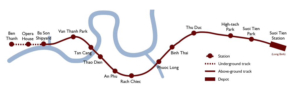 Map of the projected Line 1 of the HCMC Metro, including stations. Smaller PNG version.